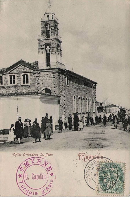 St John (Agios Ioannis) Church in Magnisia (Manisa)